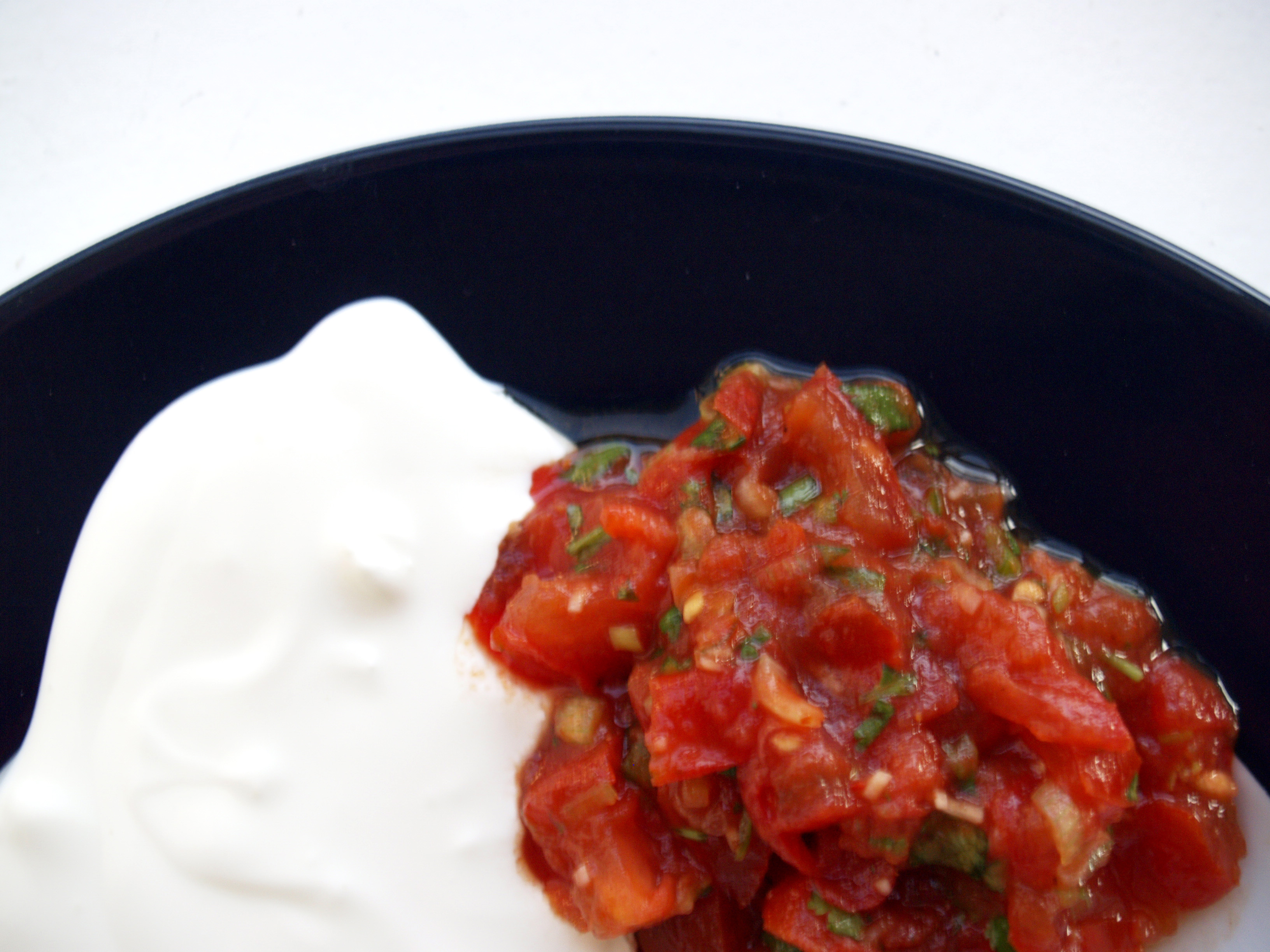 Crème fraîche and chili sauce.